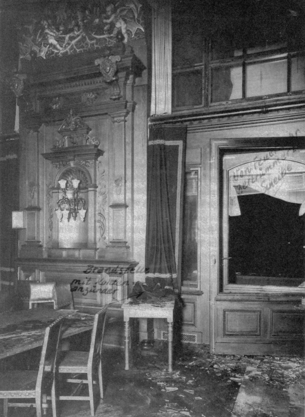 own scan from 1934 archive material